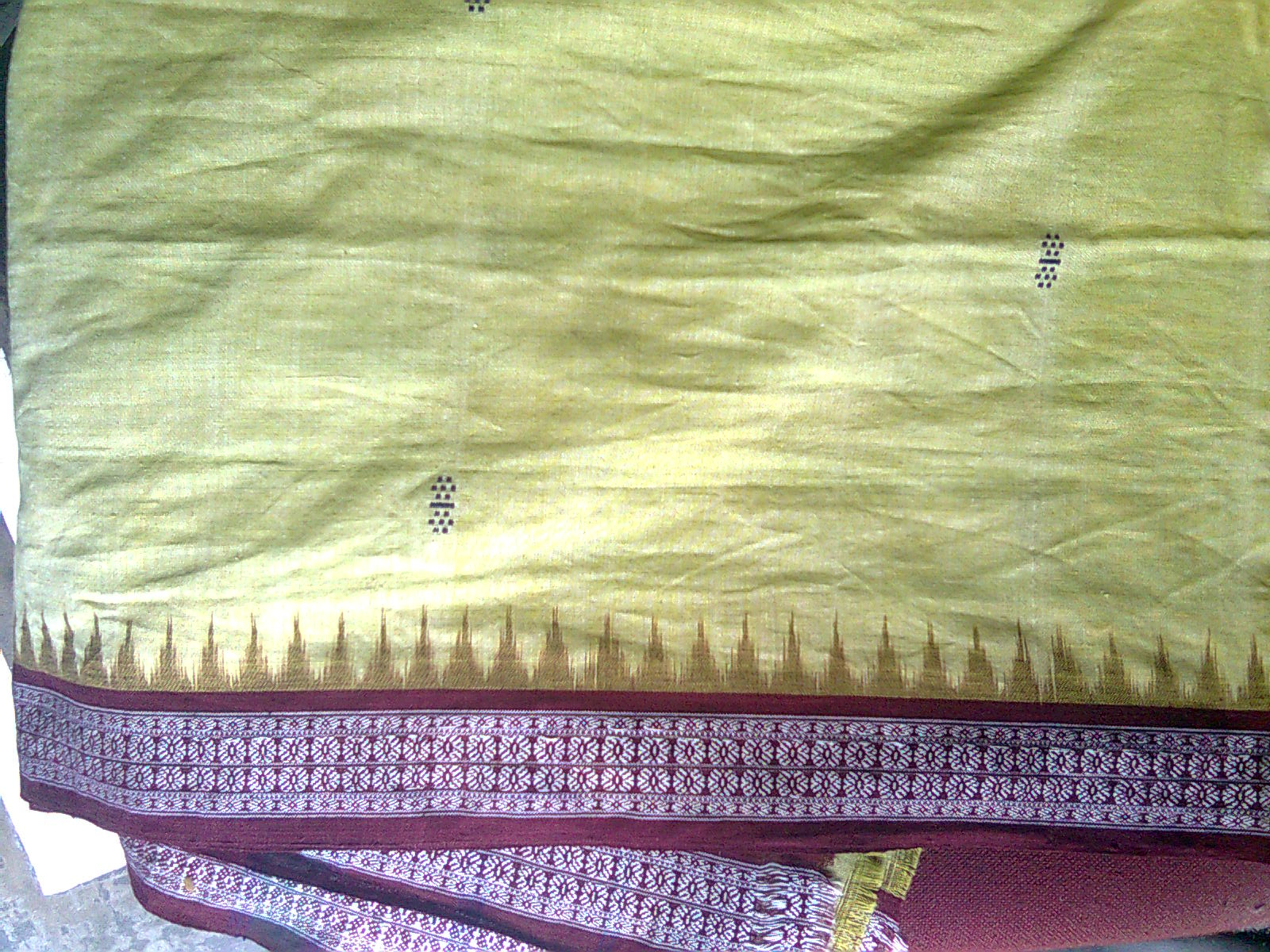 Bomkai saree from Orissa